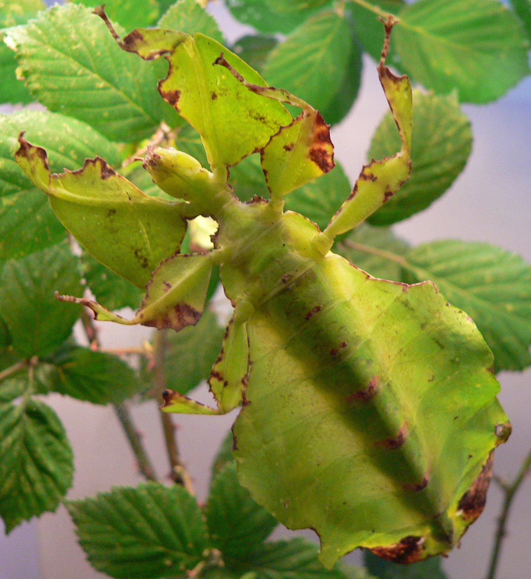 Phyllium bioculatum Oct 05 own photo